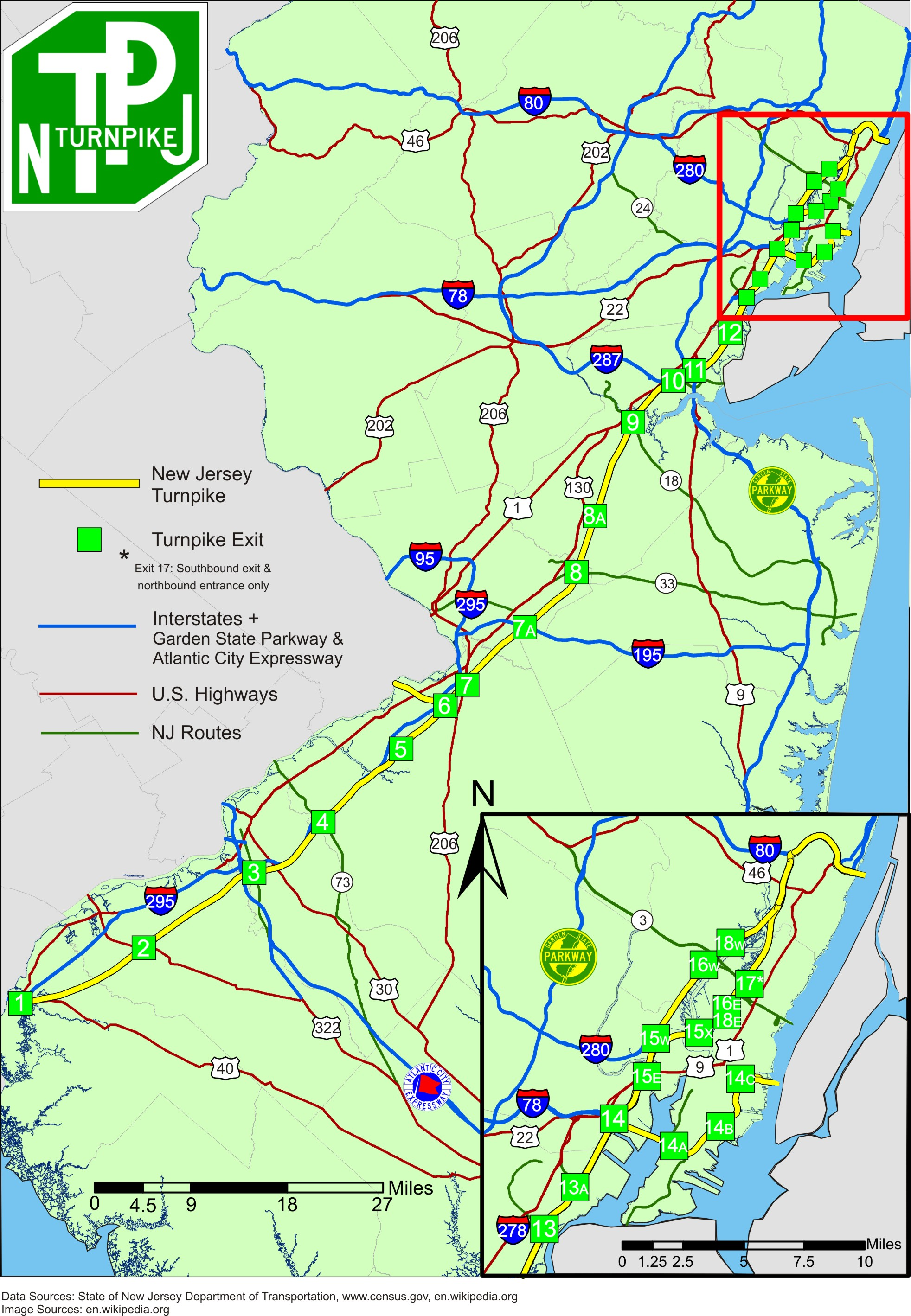 Map of New Jersey Turnpike with exits.